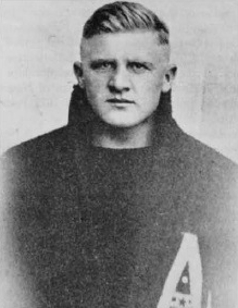 Legendary football player Elmer Oliphant in Army letterman's jacket